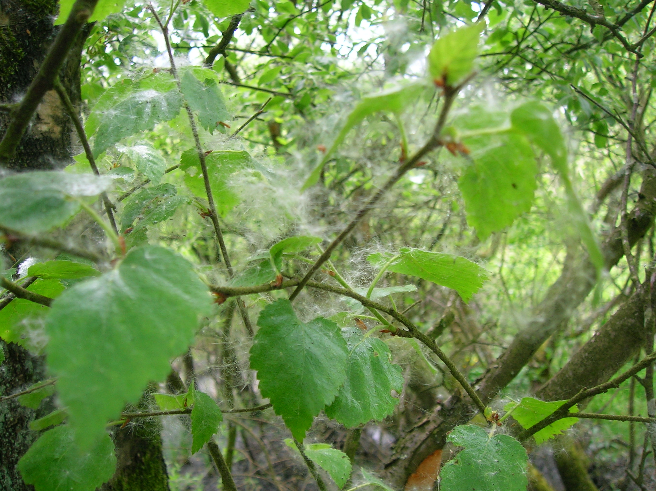 Betula pubescens coated with seeds from Salix cinerea. Eglinton Country Park, Irvine, Ayrshire, Scotland